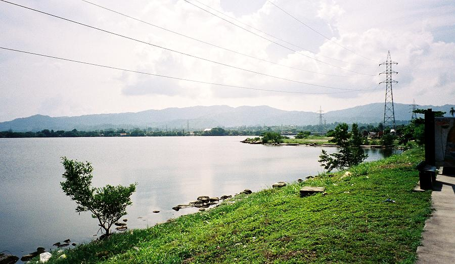 Alvarado Lake in Puerto Cortes.This file has been released into the public domain by Juan Irias, photographer of the image in Puerto Cortes, Honduras, 11-01-2005.